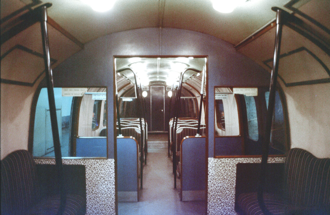 Inside a Class 487 Waterloo & City Line driving motor carriage. Photographed by SP Smiler